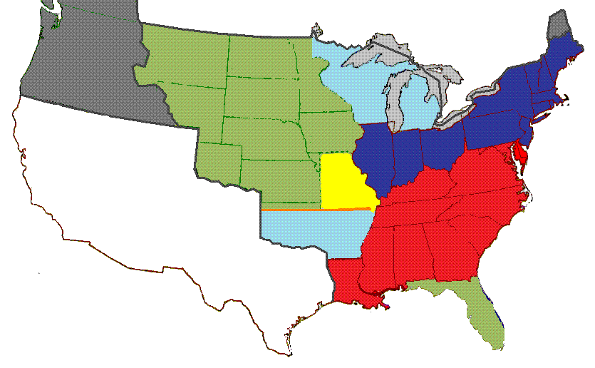 Derivated from